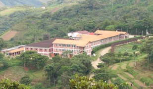 Photo of UAC-Carmen Pampa